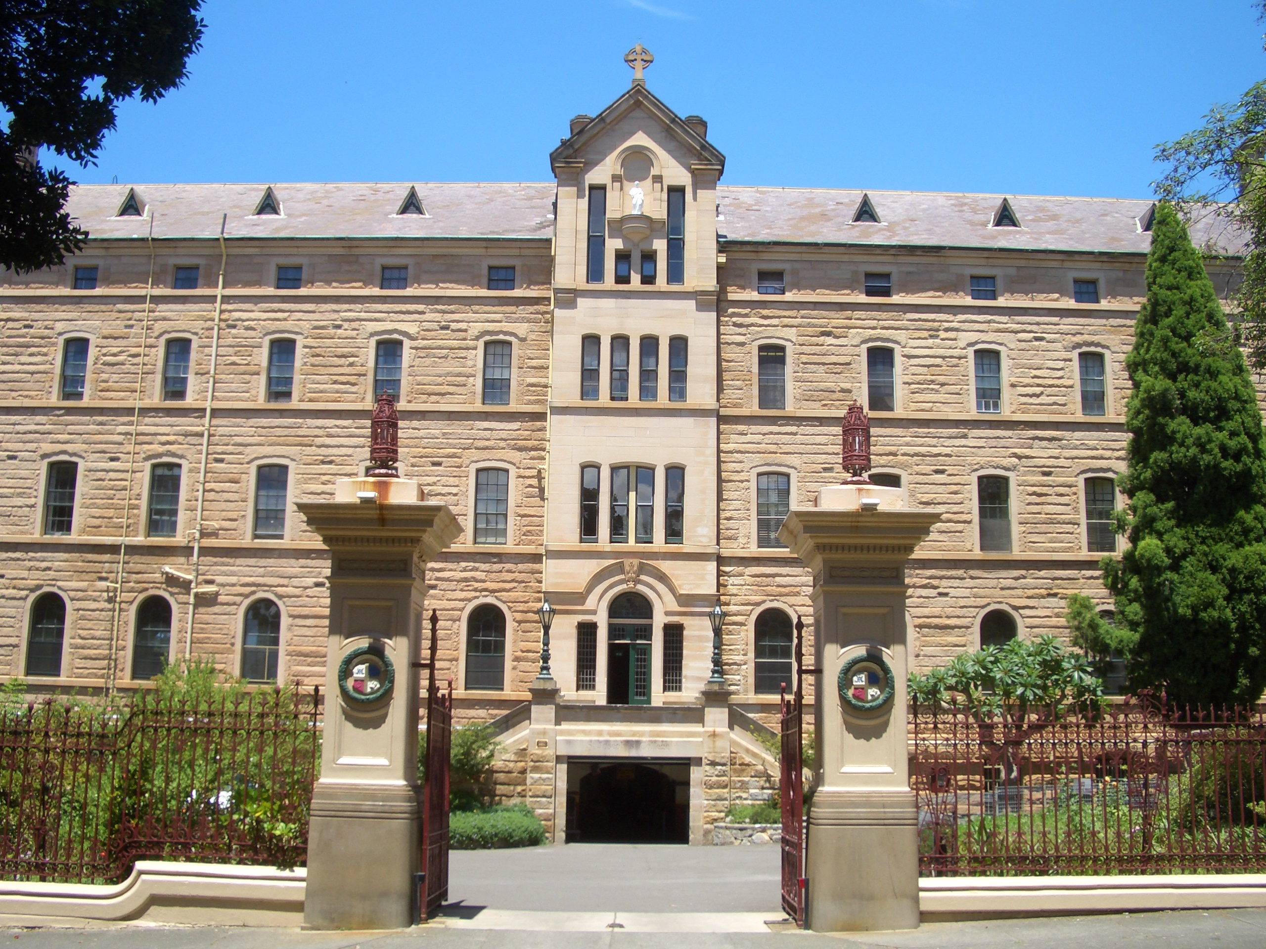 Hunters Hill, St Josephs College, Sydney